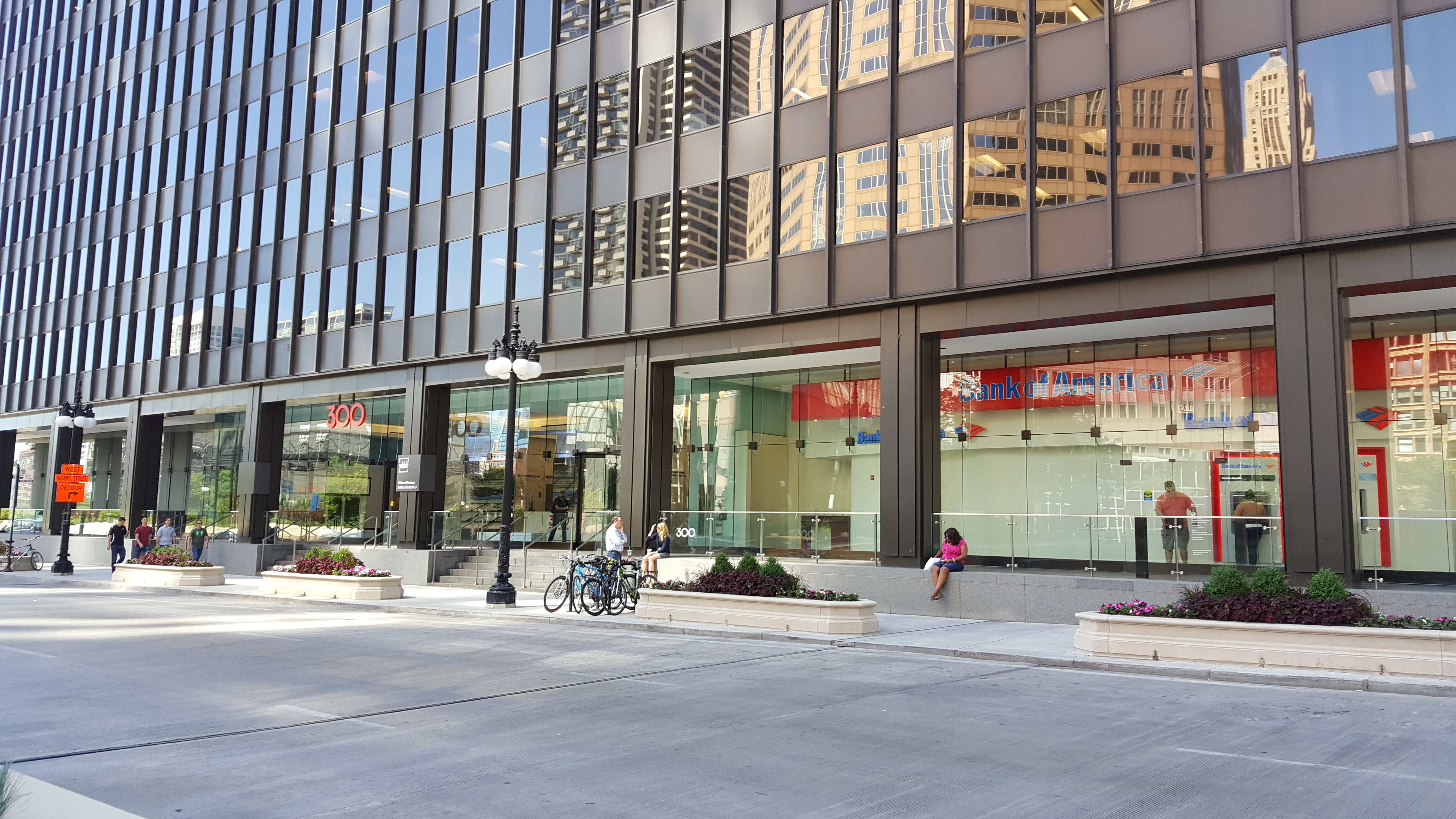 Front site of ATLA in Chicago in U.S.A.